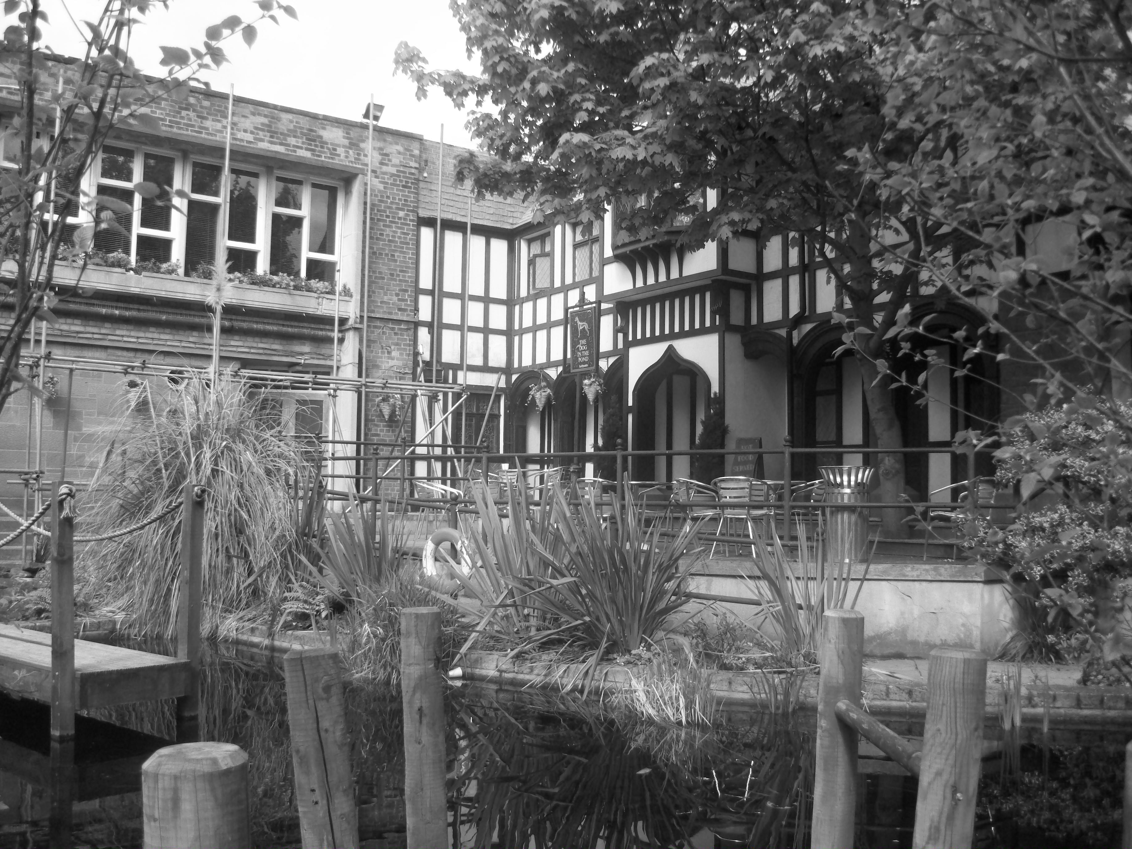 The Dog In The Pond set, as seen in Hollyoaks.